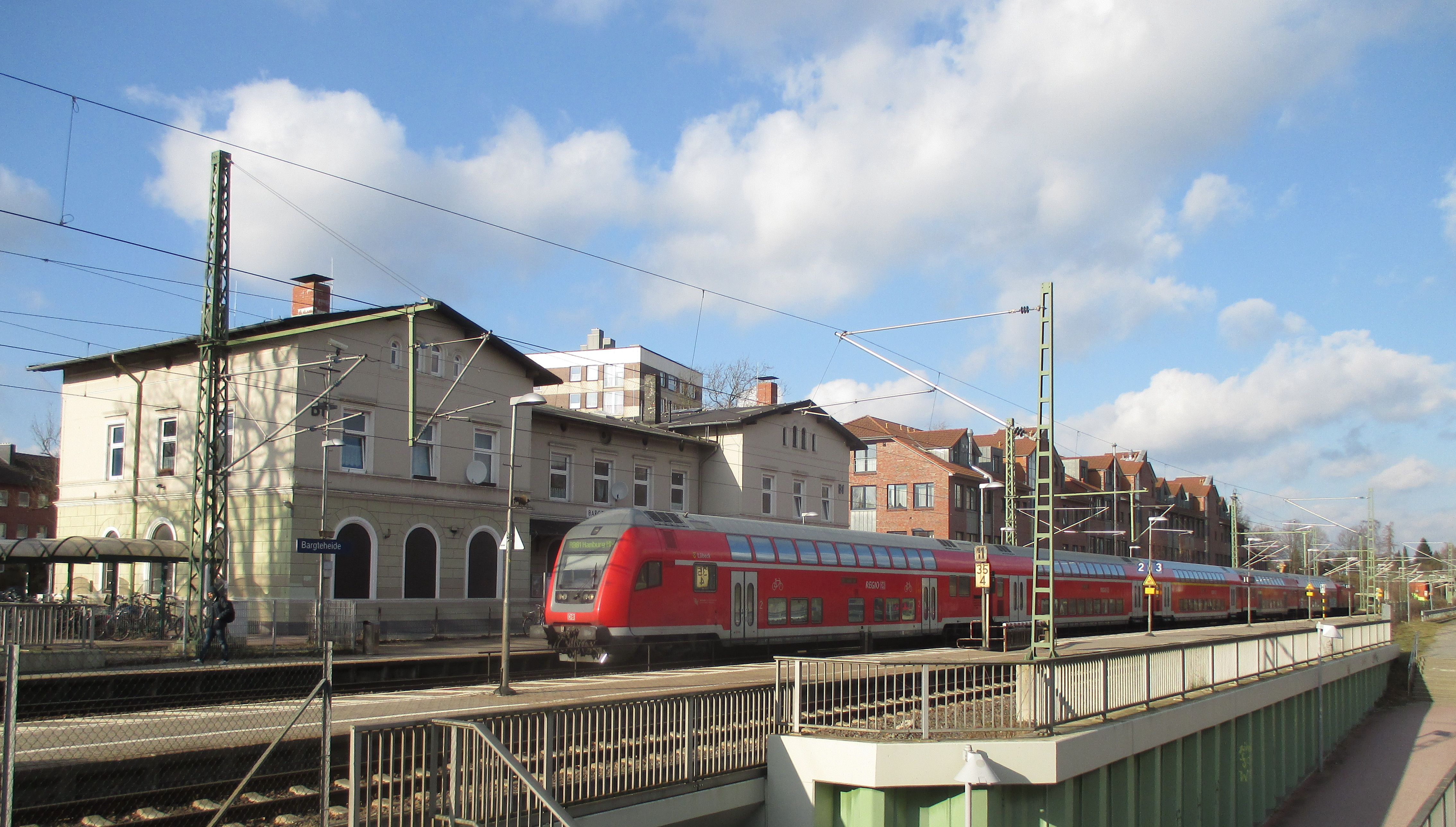 Bahnhof Bargteheide. Die Bahnstrecke Hamburg-Lübeck ist eine Lebensader und führt die Züge auch nach Skandinavien.